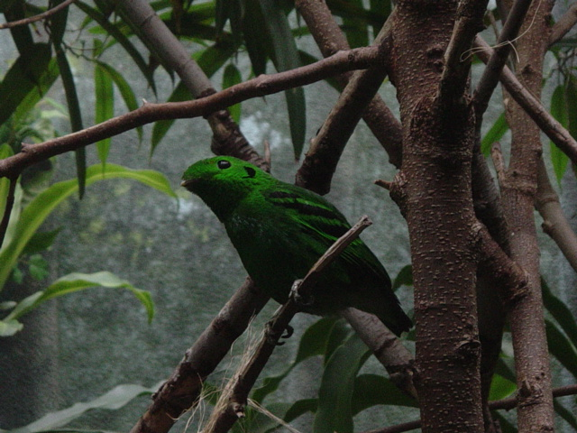 Green Broadbill (Calyptomena viridis)